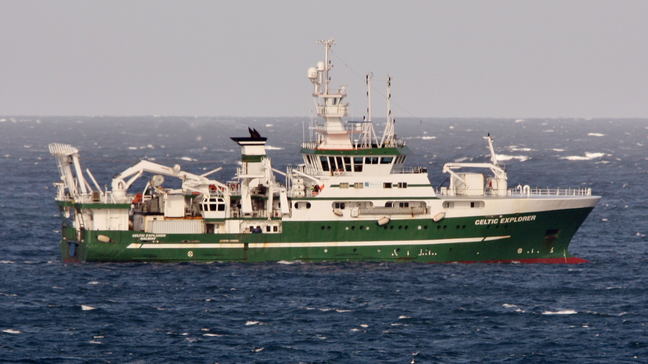 Off Lady's Holm, Bay of Quendale, Shetland.